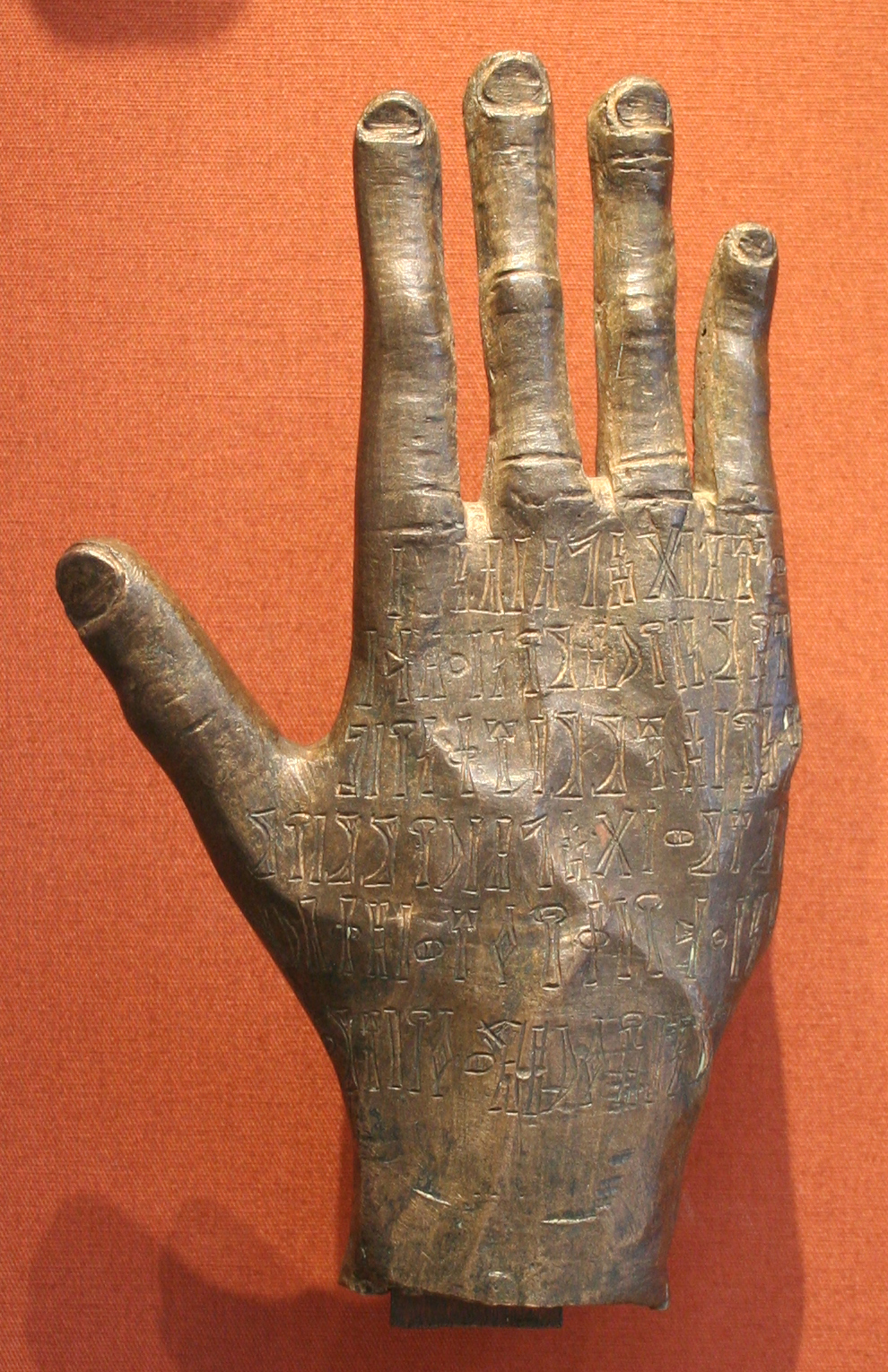 Art from Ancient Yemen, British Museum, London